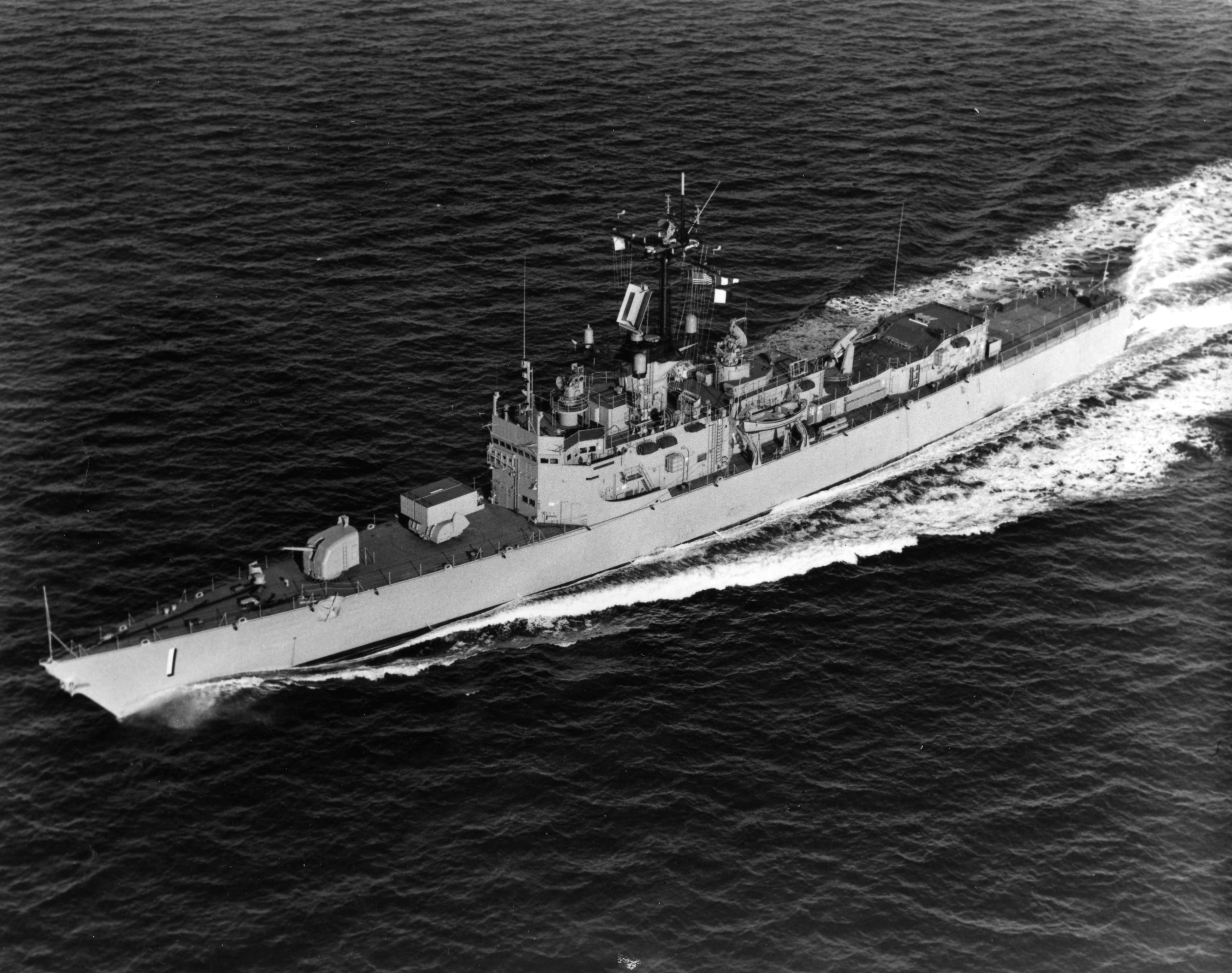 The U.S. Navy guided missile destroyer escort USS Brooke (DEG-1) underway on 12 March 1966.